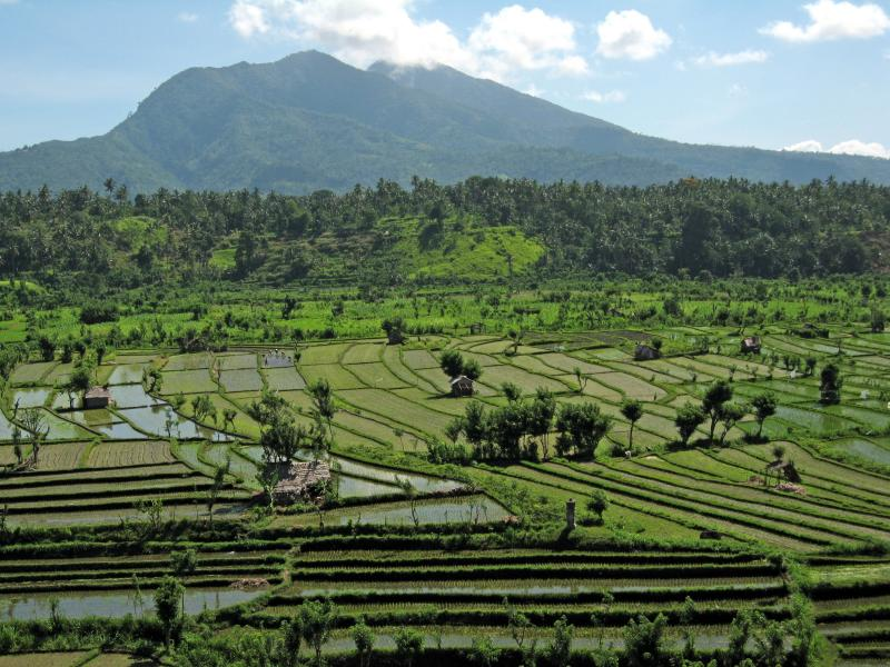 Rice paddies to the north of Tirta Gangga in East Bali Location: Tirta Gangga.